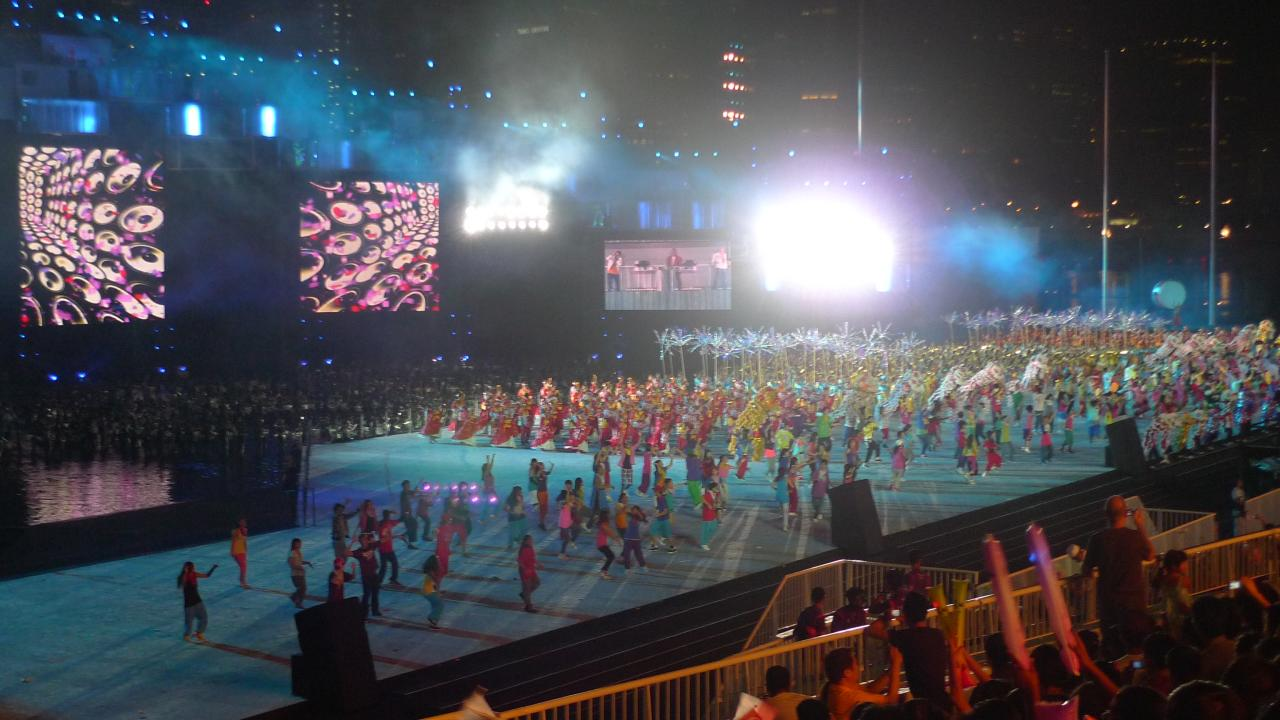 Opening Ceremony of Singapore YOG 2010